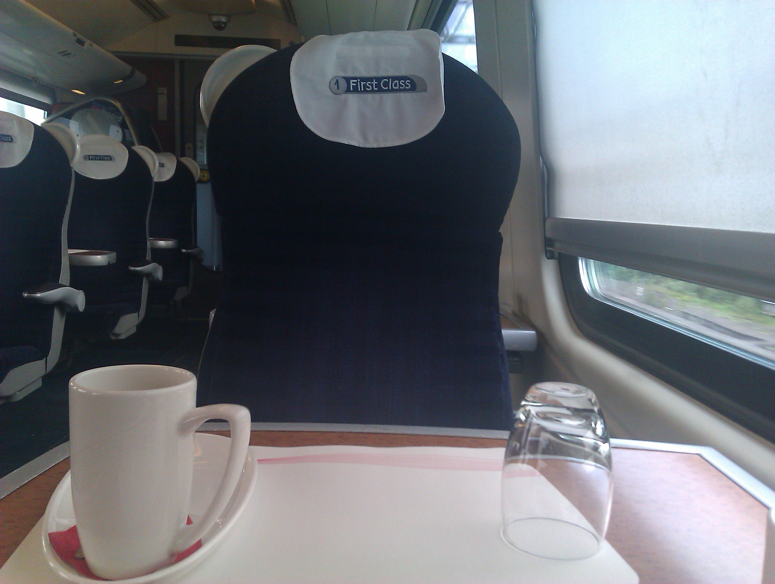 A typical 1st class layout on a Virgin Trains Super Voyager.